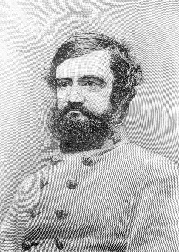 Engraved portrait of Lieutenant Colonel William Tennent Stockton (1812-1869), First Florida Cavalry Regiment, CSA. For bio see, Letters Relating to the Civil War Service of William T. Stockton. State Library and Archives of Florida; Image Number: RC05615